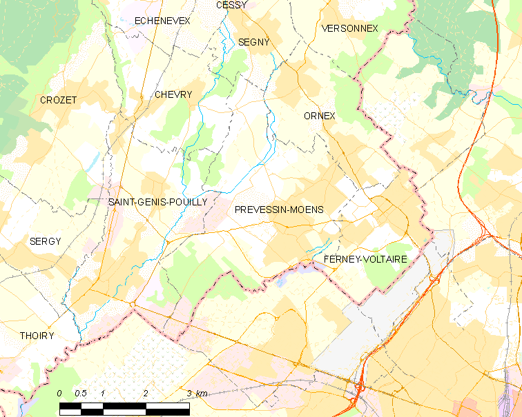 Map of French commune: Prévessin-Moëns Map commune FR insee code 01313.png